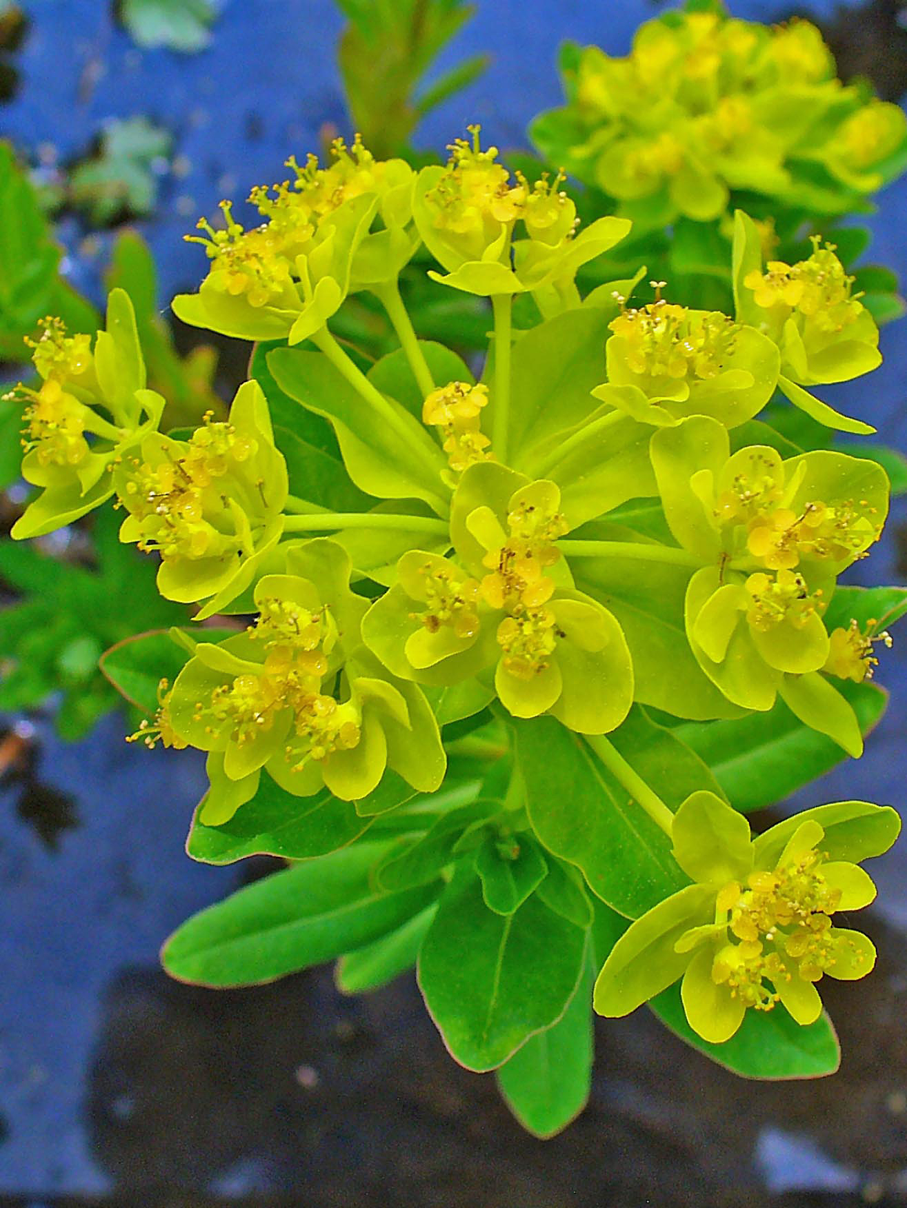 Euphorbia palustris, Euphorbiaceae, Marsh Spurge, inflorescences; Botanical Garden KIT, Karlsruhe, Germany. The plant is used in homeopathy as remedy: Euphorbia palustris (Euph-pa.)